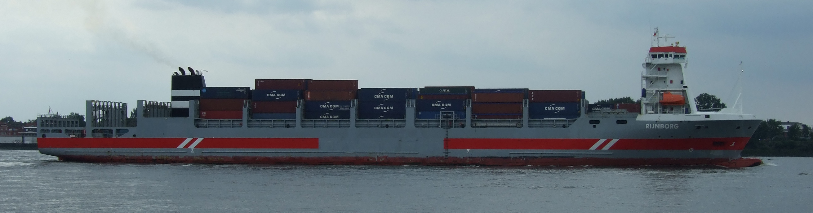 container ship Rijnborg (Wagenborg) IMO 9355812